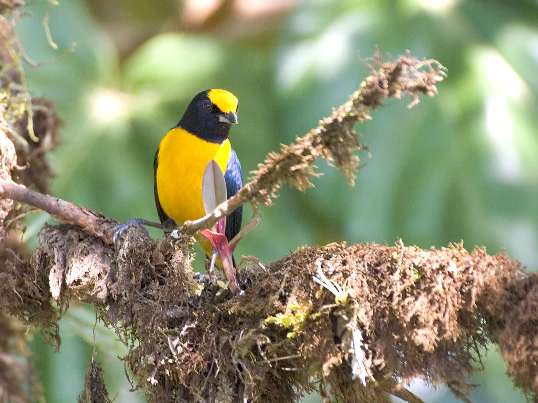 Euphonia xanthogaster